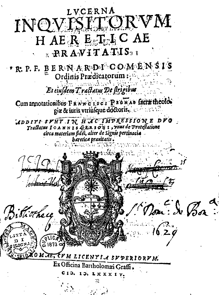 Title page of Lucerna Inquisitorum Haereticae Pravitatis, inquisitorial handbook by Bernardo da Como, edited in Rome, 1584